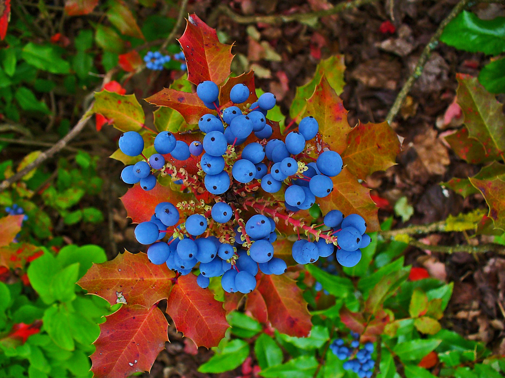 Mahonia aquifolium, Berberidaceae, Oregon-grape, infrutescence; Karlsruhe, Germany.